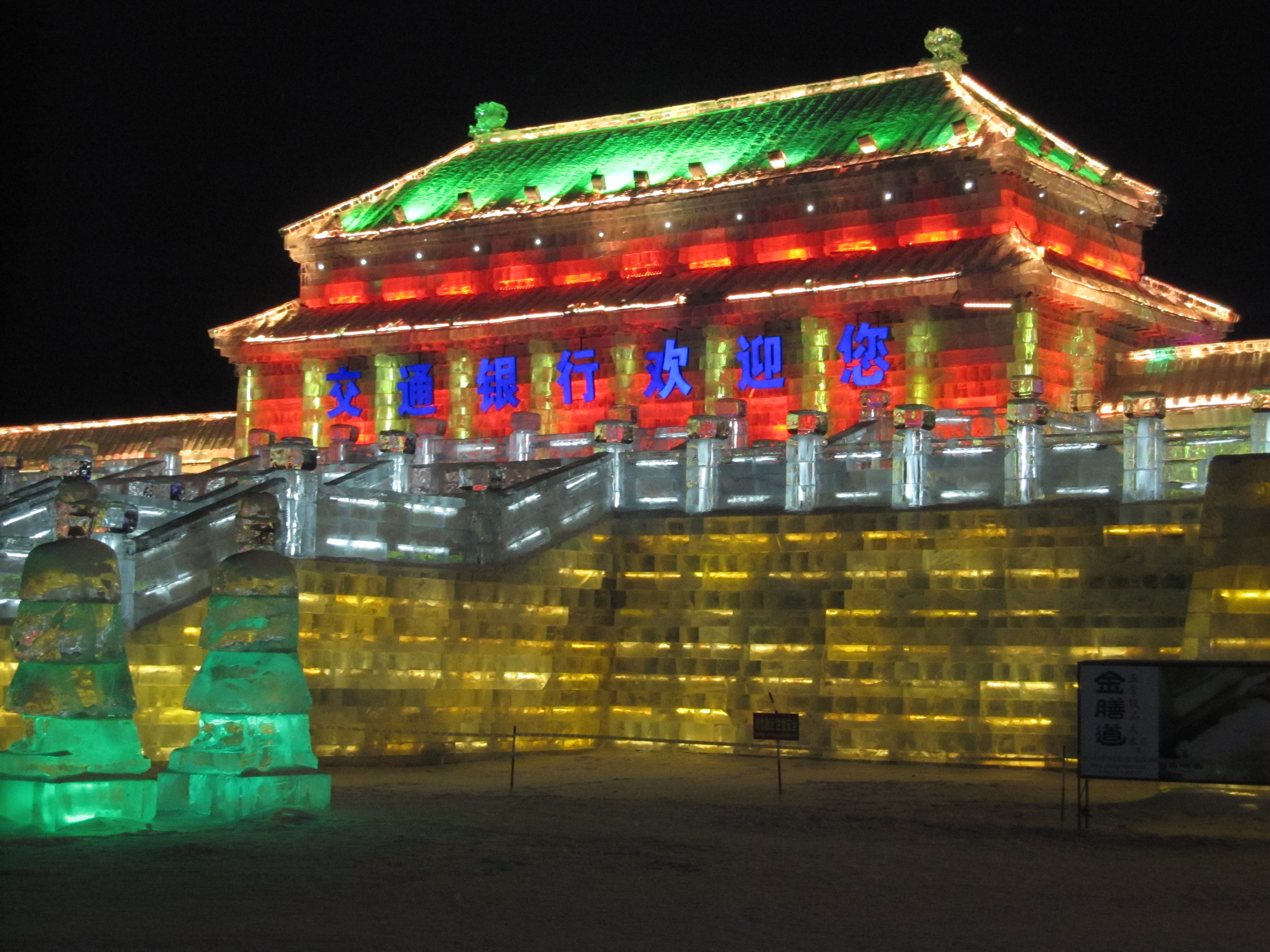 11th Harbin International Ice and Snow Sculpture Festival. The building says Jiao Tong bank welcomes you.